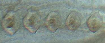 Some teeth of the file of the right forewing at high magnification. They are better to recognize than those of the left file because of less pigmentation